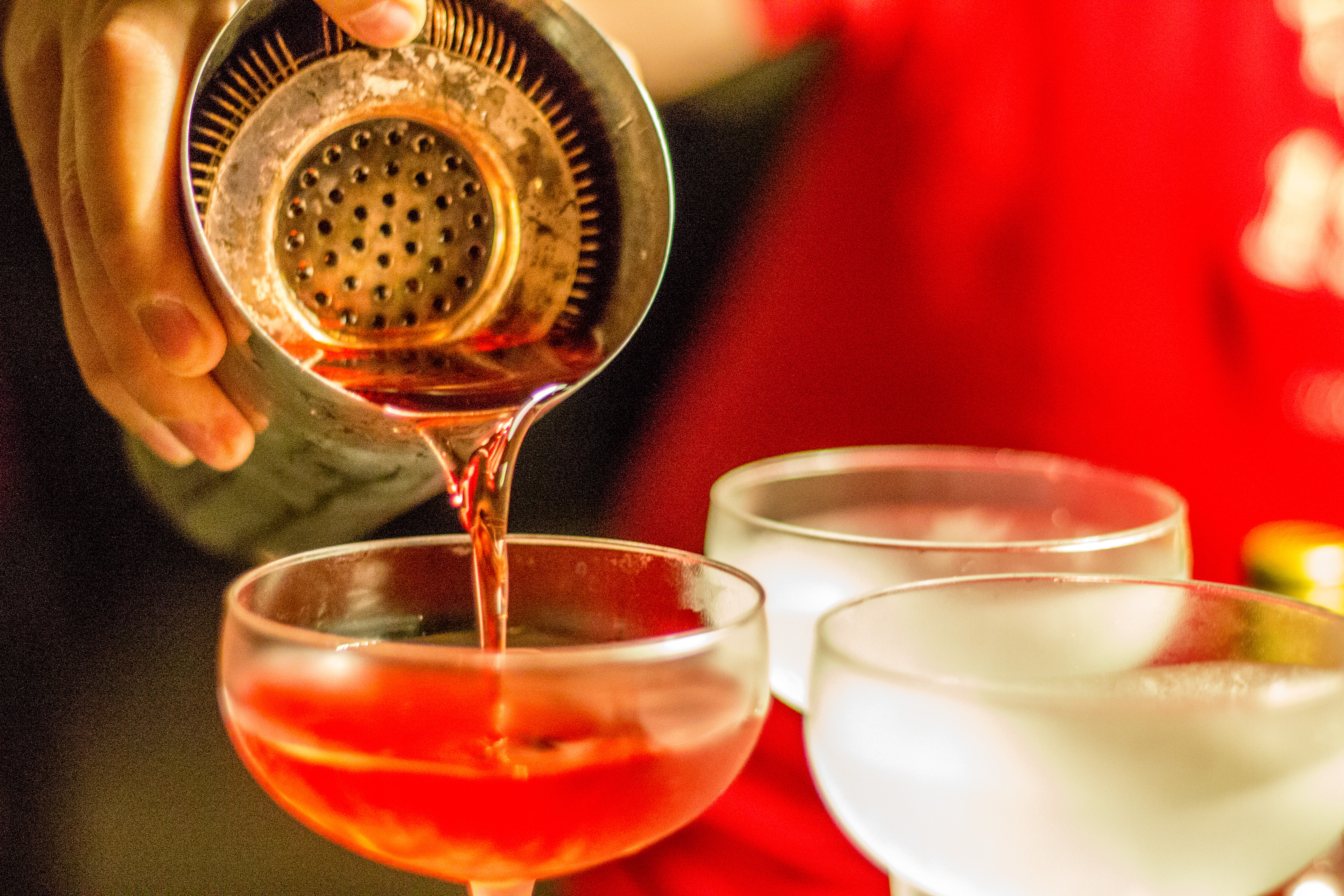 Straining a cocktail into a frozen cocktail glass. The liquid is poured from the tin cup of a boston shaker while a copper plated Hawthorne strainer holds back the ice.